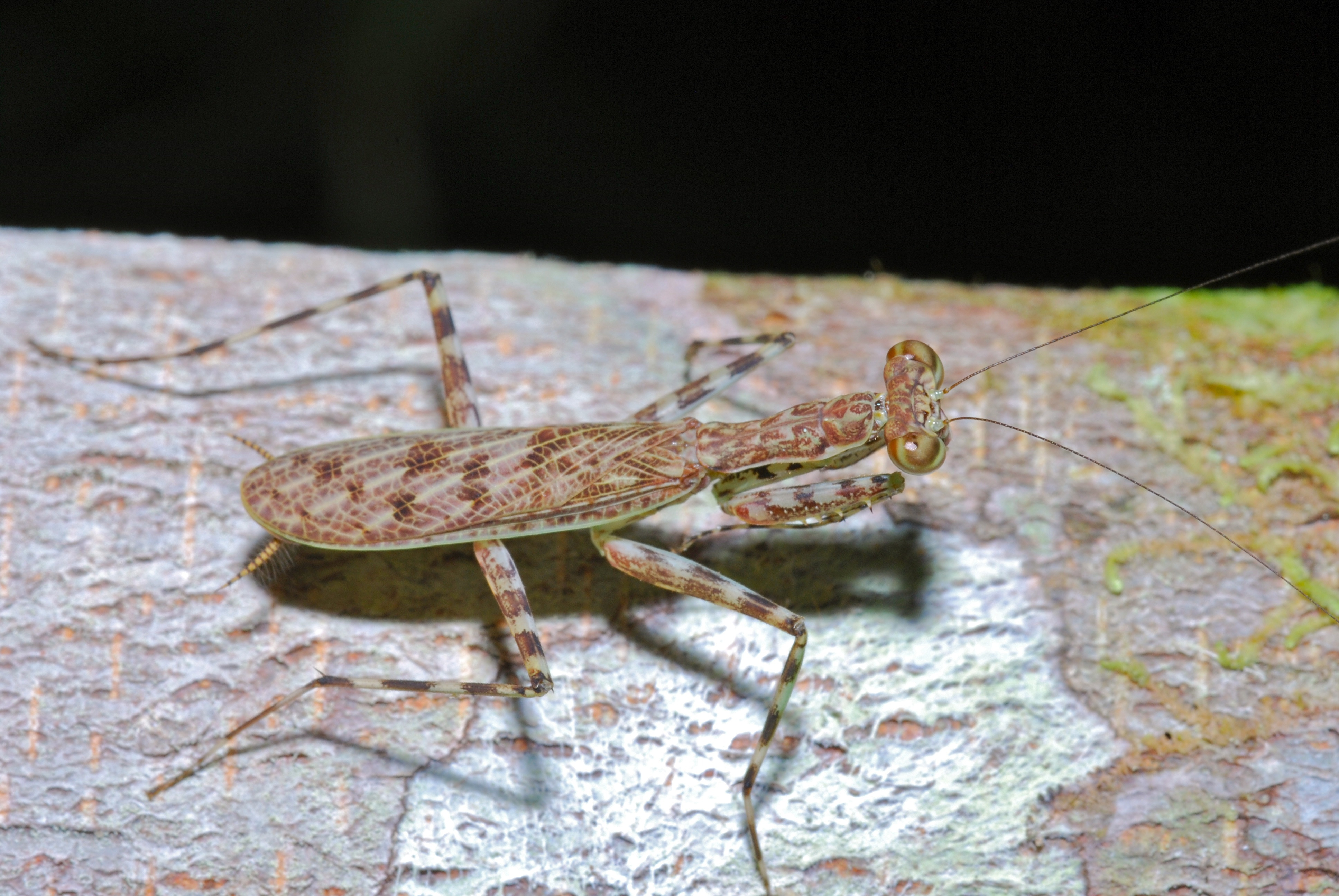 Cockscomb Wildlife Sanctuary, BELIZE